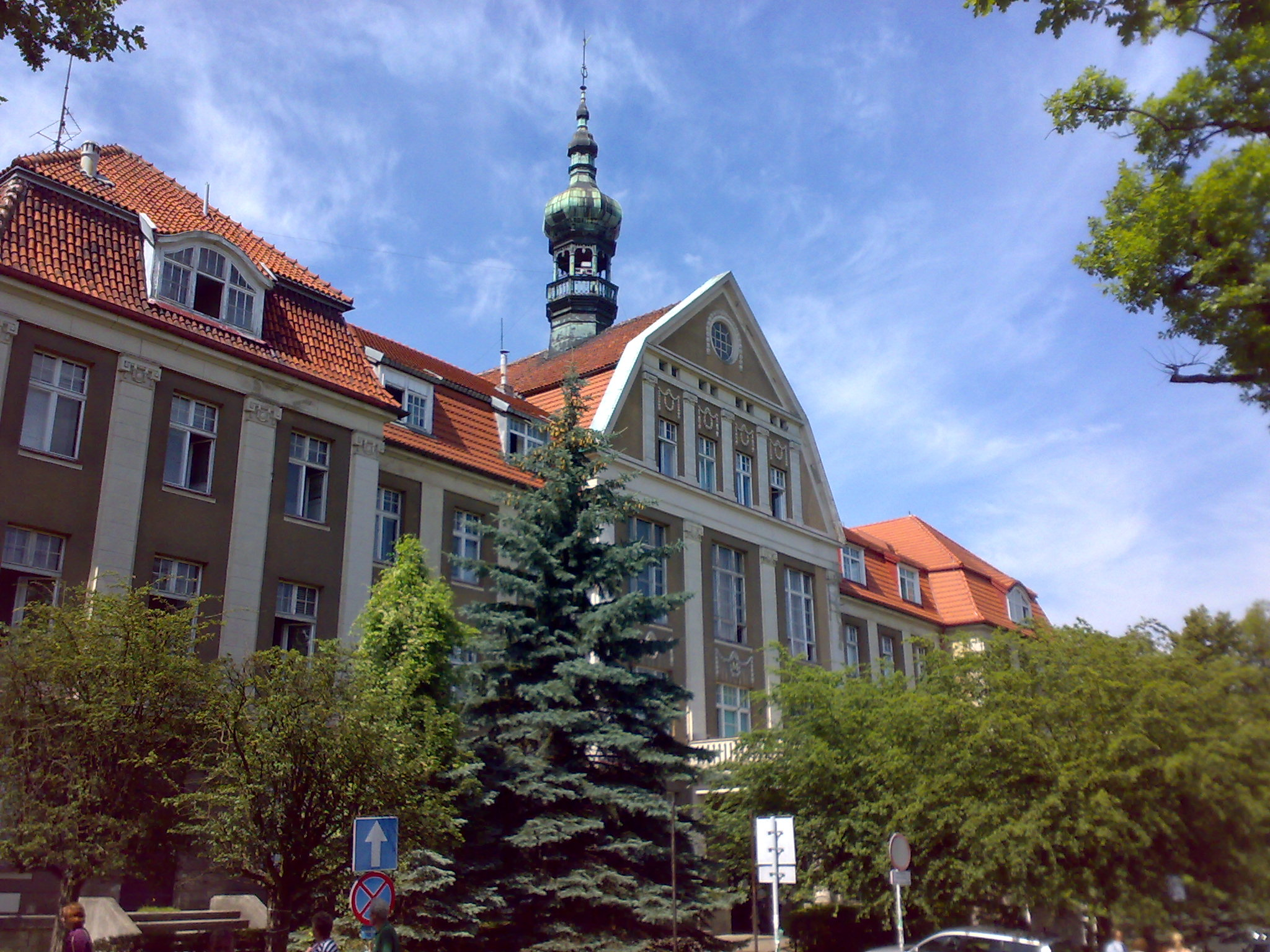 The historic Building 1 of the MUG Hospital (University Medical Centre), currently houses the Family Medicine Clinic and a pharmacy.